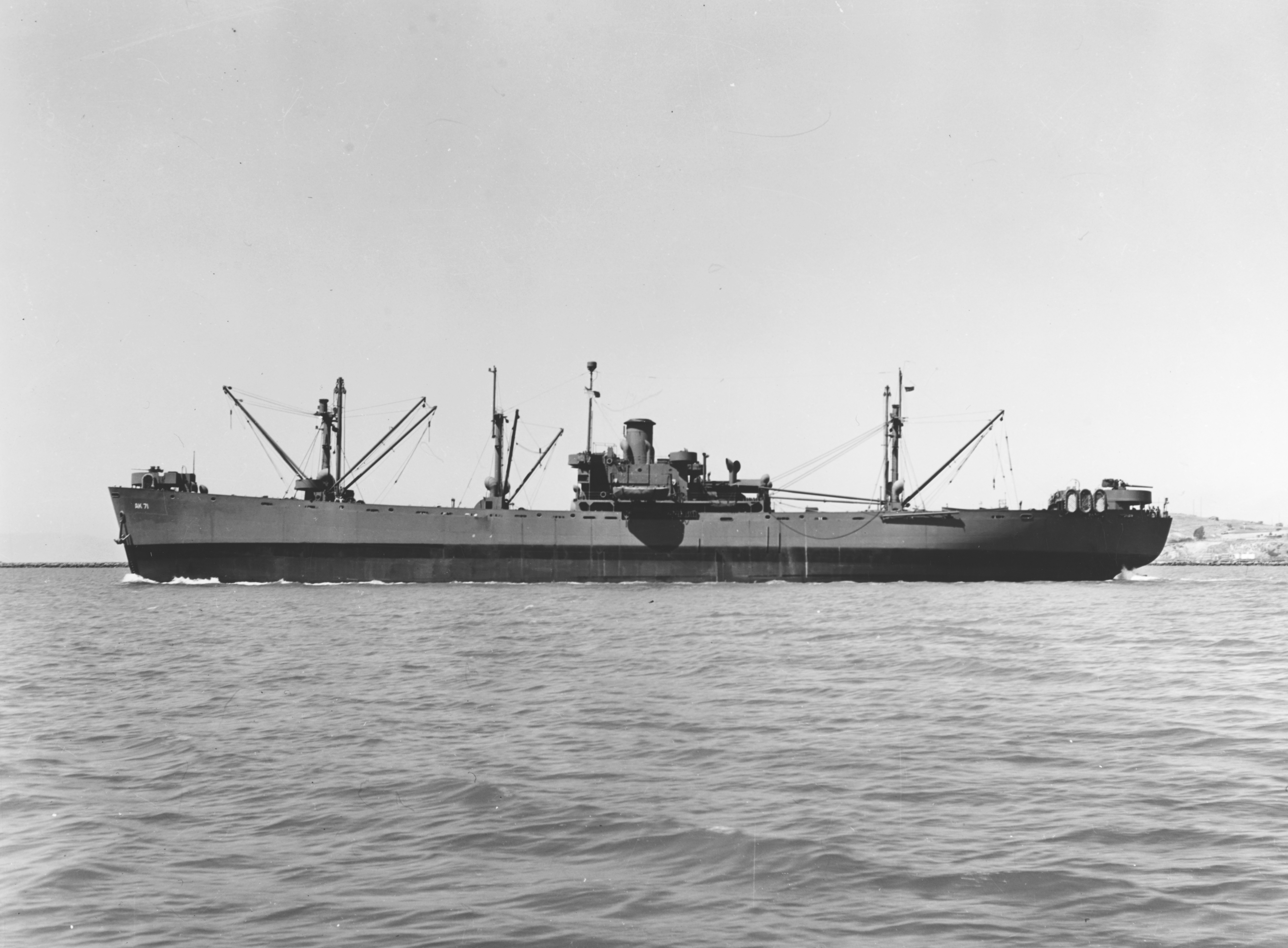 The U.S. Navy cargo ship USS Adhara (AK-71) off the Mare Island Naval Shipyard, California (USA), on 20 August 1943.